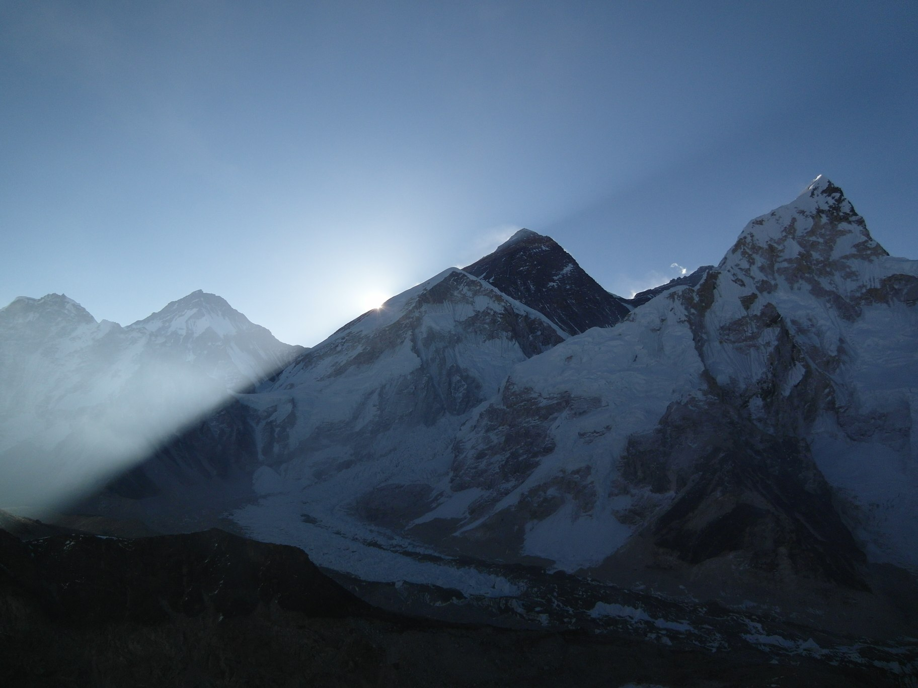 ...as seen from Kala Pathar. Everest in the centre, Nuptse on the right, Changtse on the left